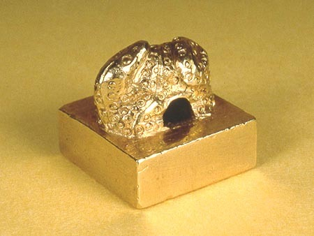 Snake knob of the King of Na gold seal